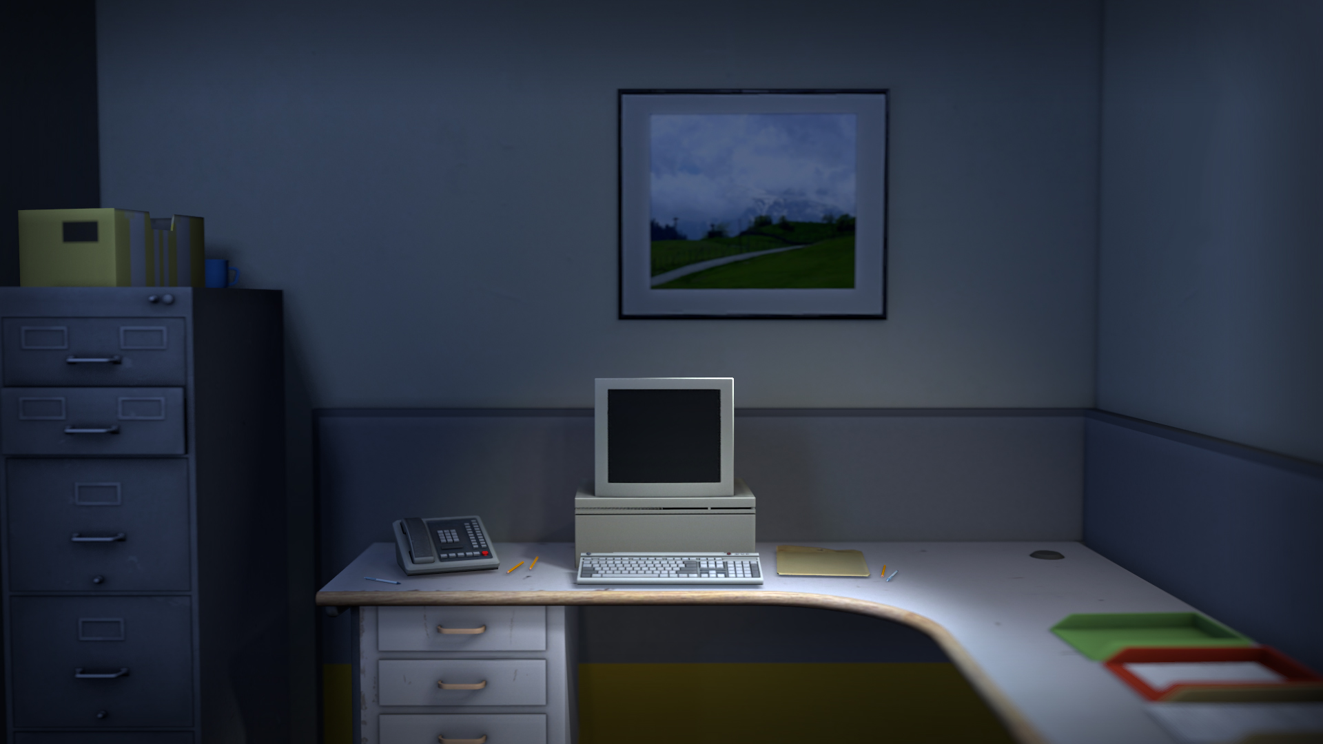 The Stanley Parable screenshot. Released in 2013, the game was developed by Galactic Cafe.